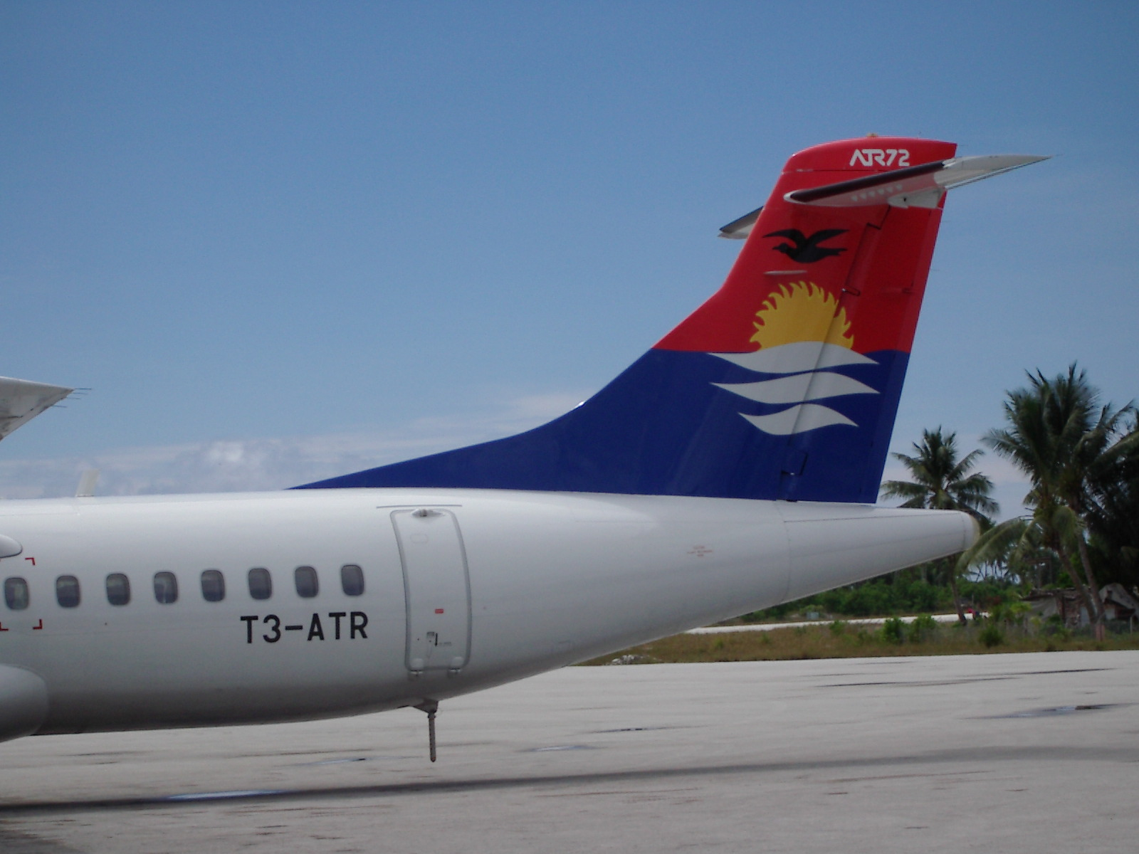 Air Kiribati ATR-72 (T3-ATR). The rear tail stand is removed for flight; it prevents the aircraft from tipping when loading or unloading.